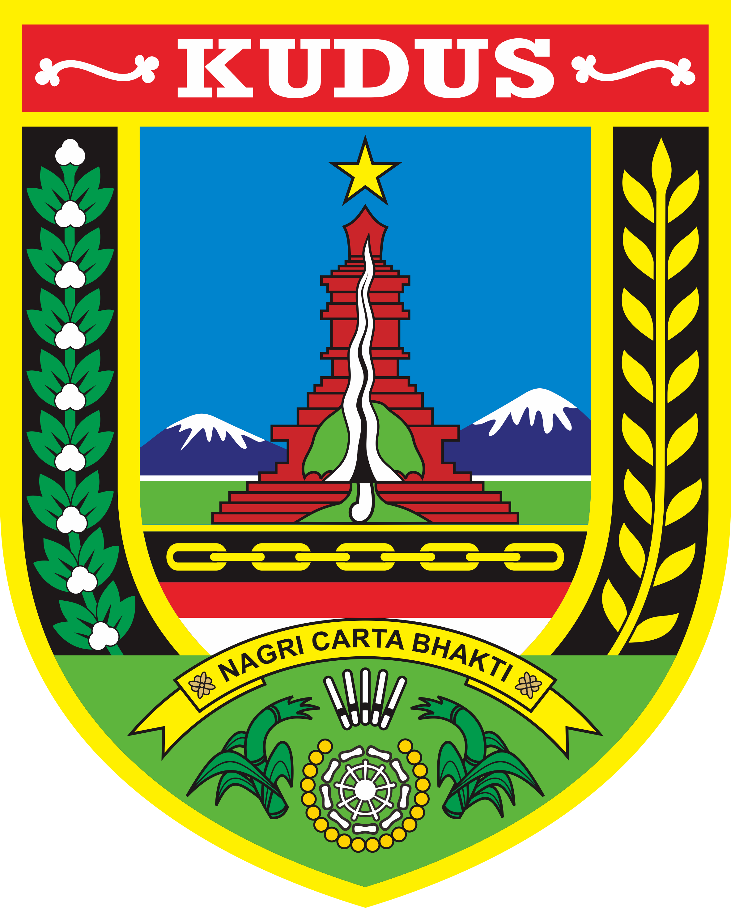 Coat of arms of Kudus Regency